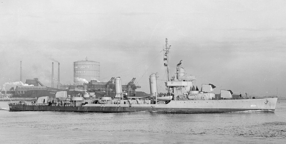 The U.S. Navy destroyer USS Bristol (DD-453) off the New York Naval Shipyard (USA) on 8 January 1943.